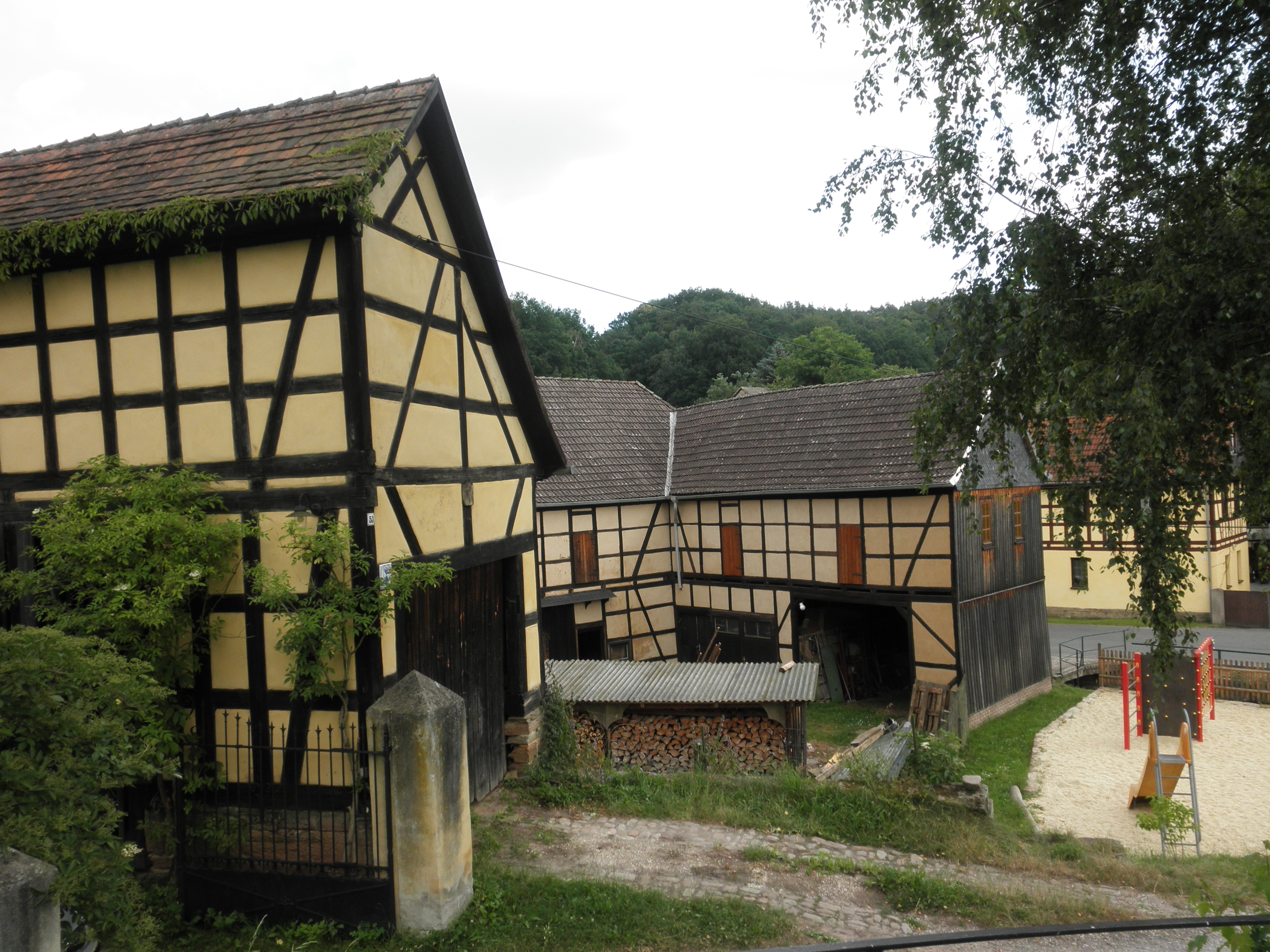 Halftimbered Buildings in Bremsnitz in Thuringia